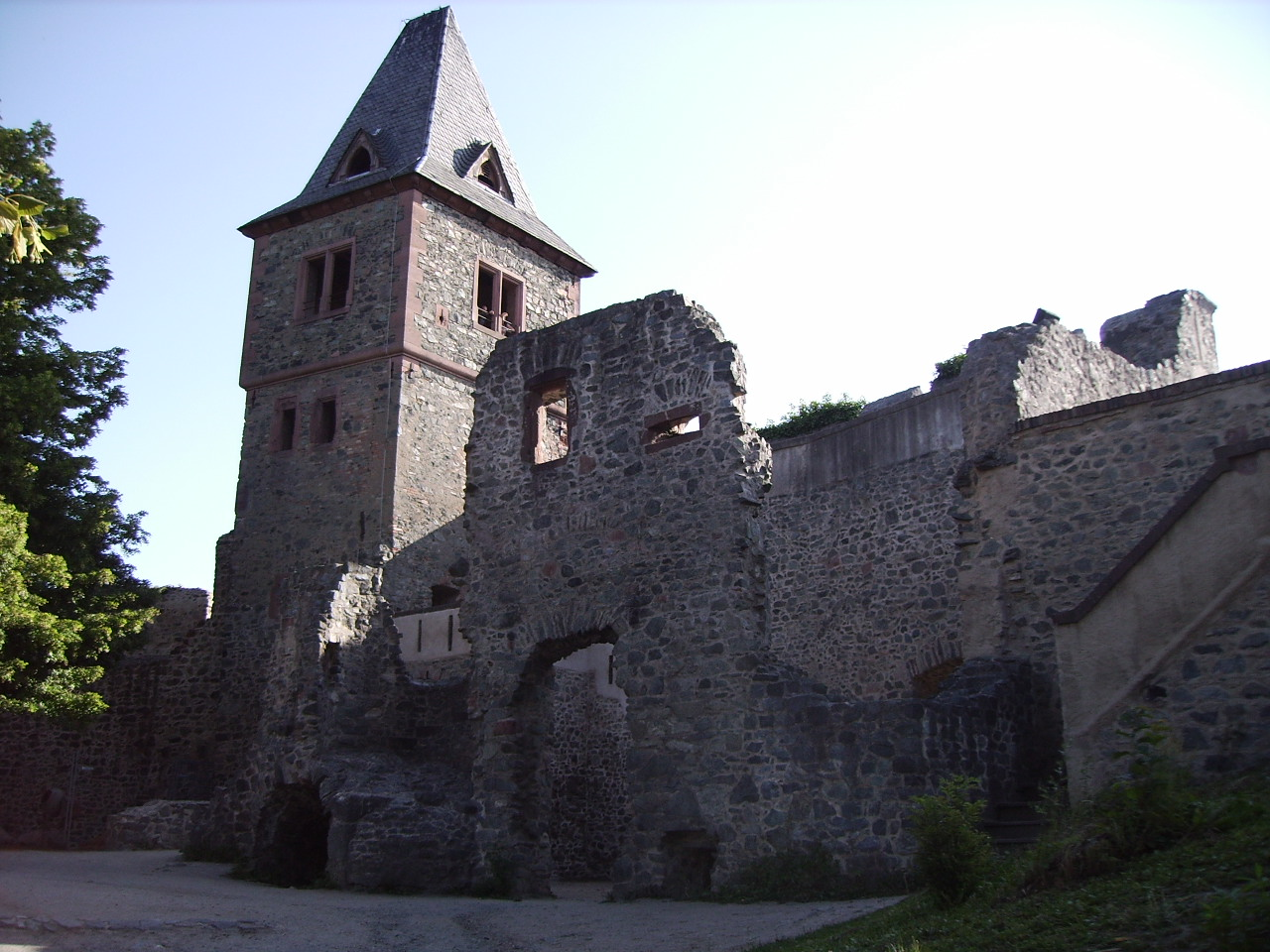 Ruins of the inner castle of Burg Frankenstein